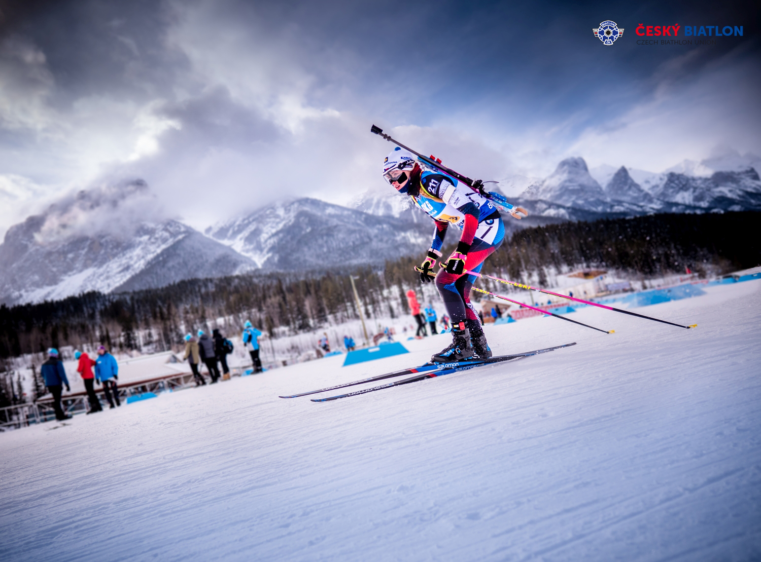 Czech biathlete Markéta Davidová in 2019.